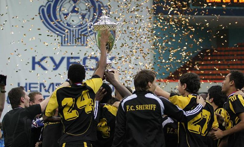 Sheriff Tiraspol with the 2009 CIS Cup title.